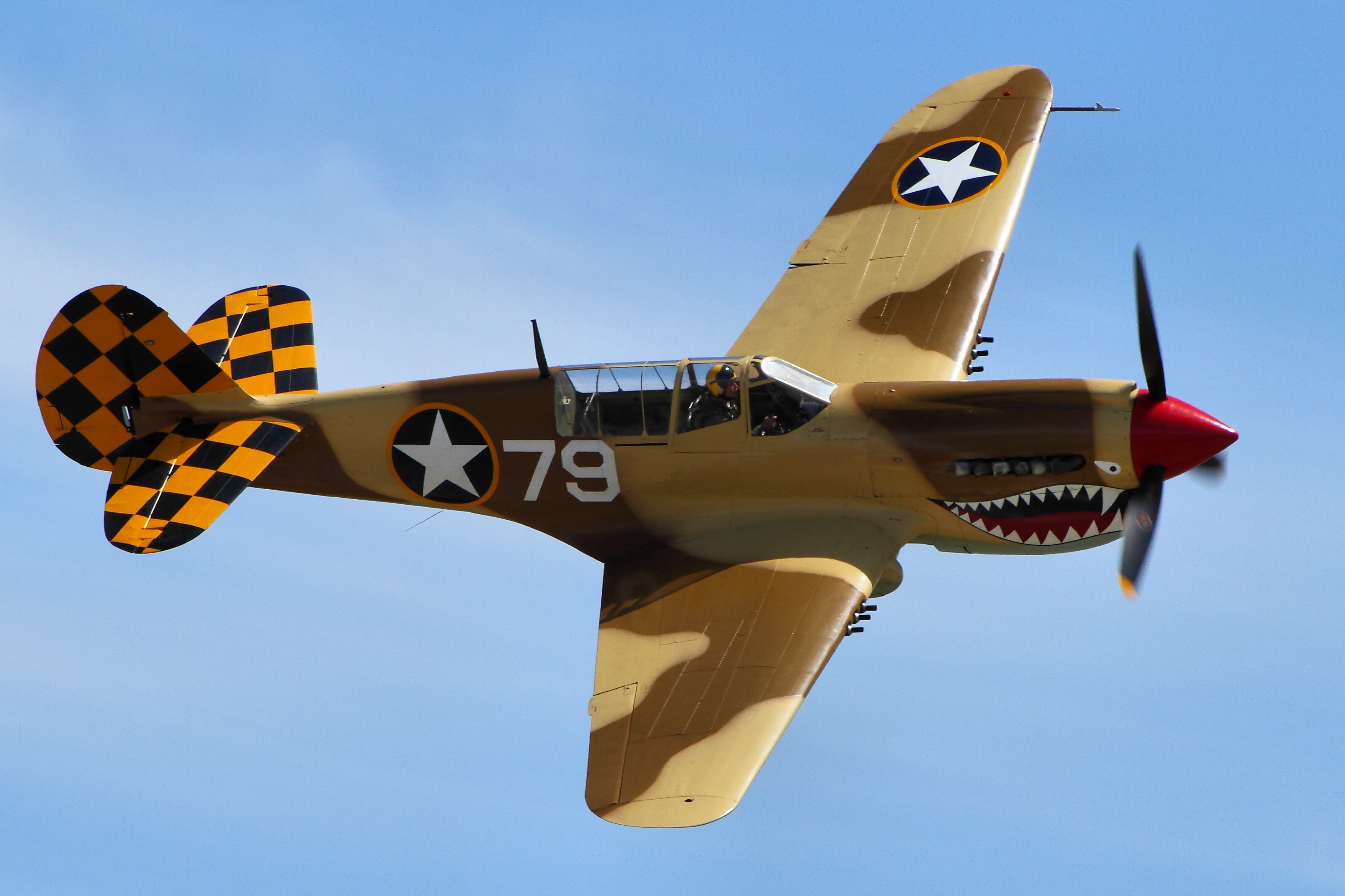 P40N Warhawk - Chino Airshow 2014